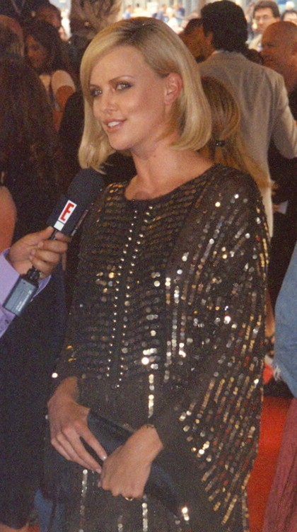 Charlize Theron at the premiere of North Country at the 2005 Toronto International Film Festival.